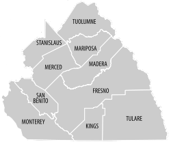 Map of the counties of Central California